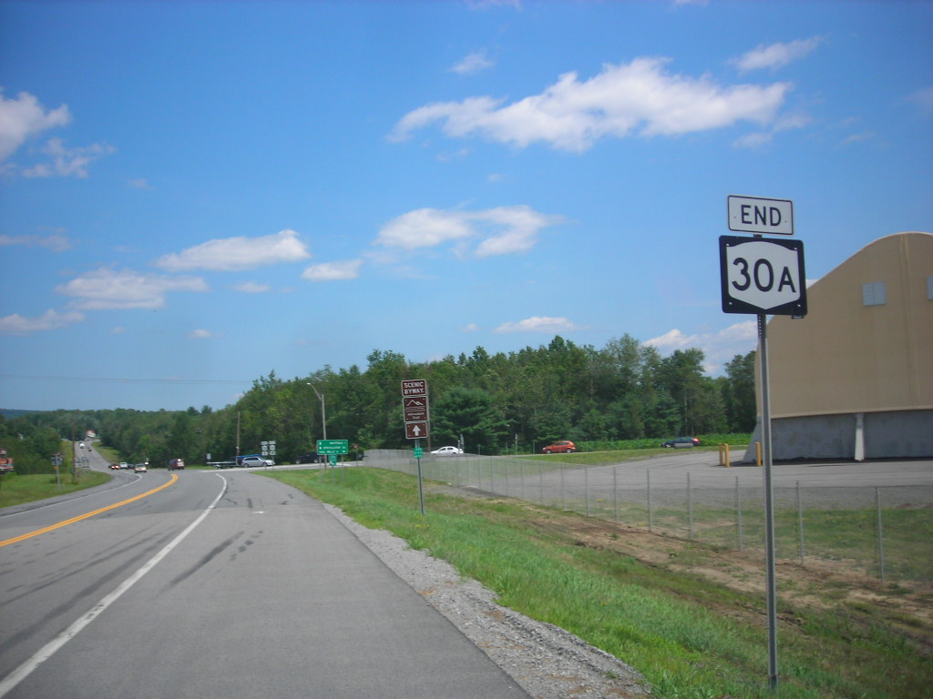 New York State Route 30A northbound at the junction with State Route 30 in the hamlet of Riceville.